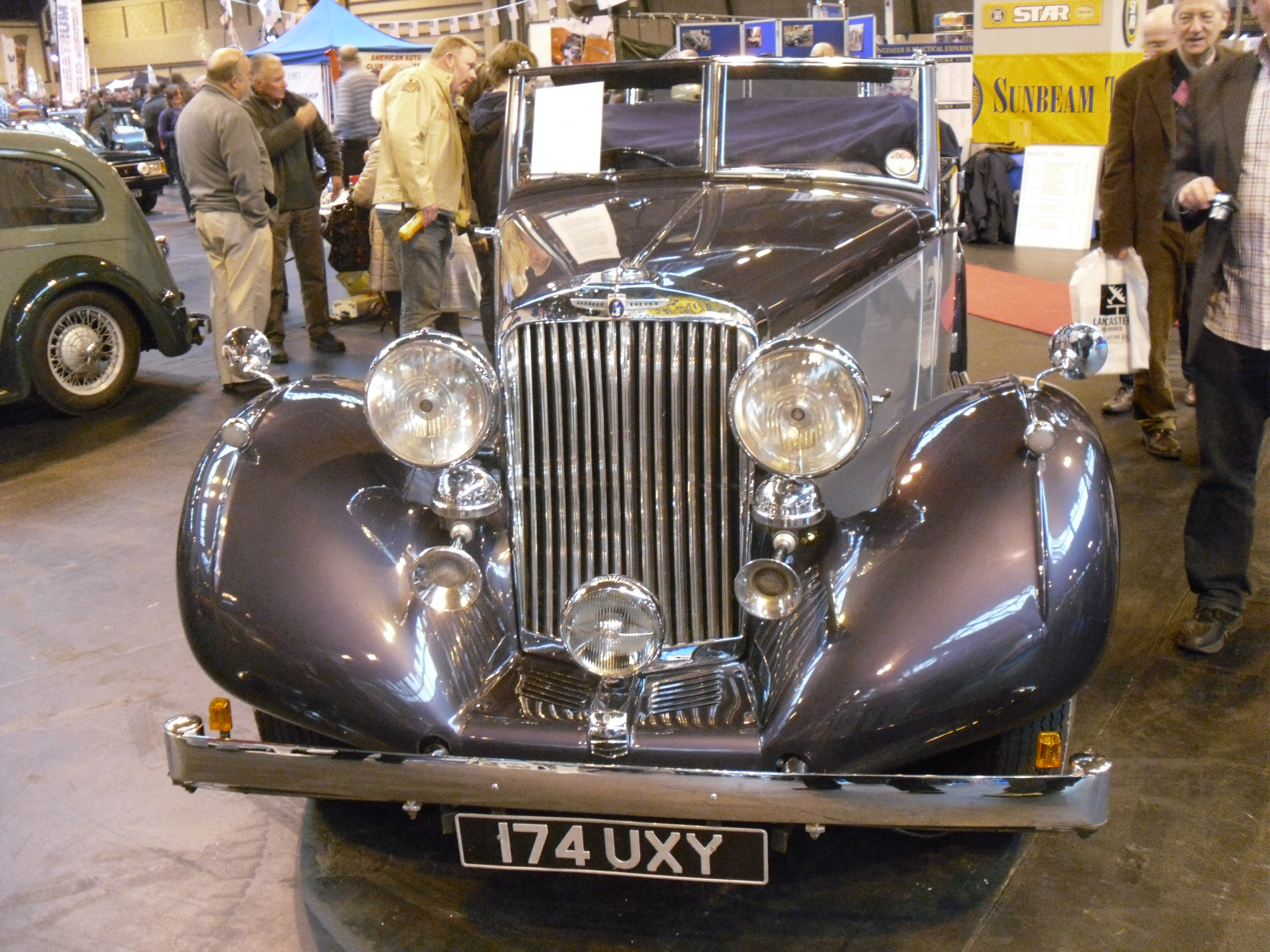 1939 Sunbeam-Talbot 4-litre drophead coupé 174 UXY